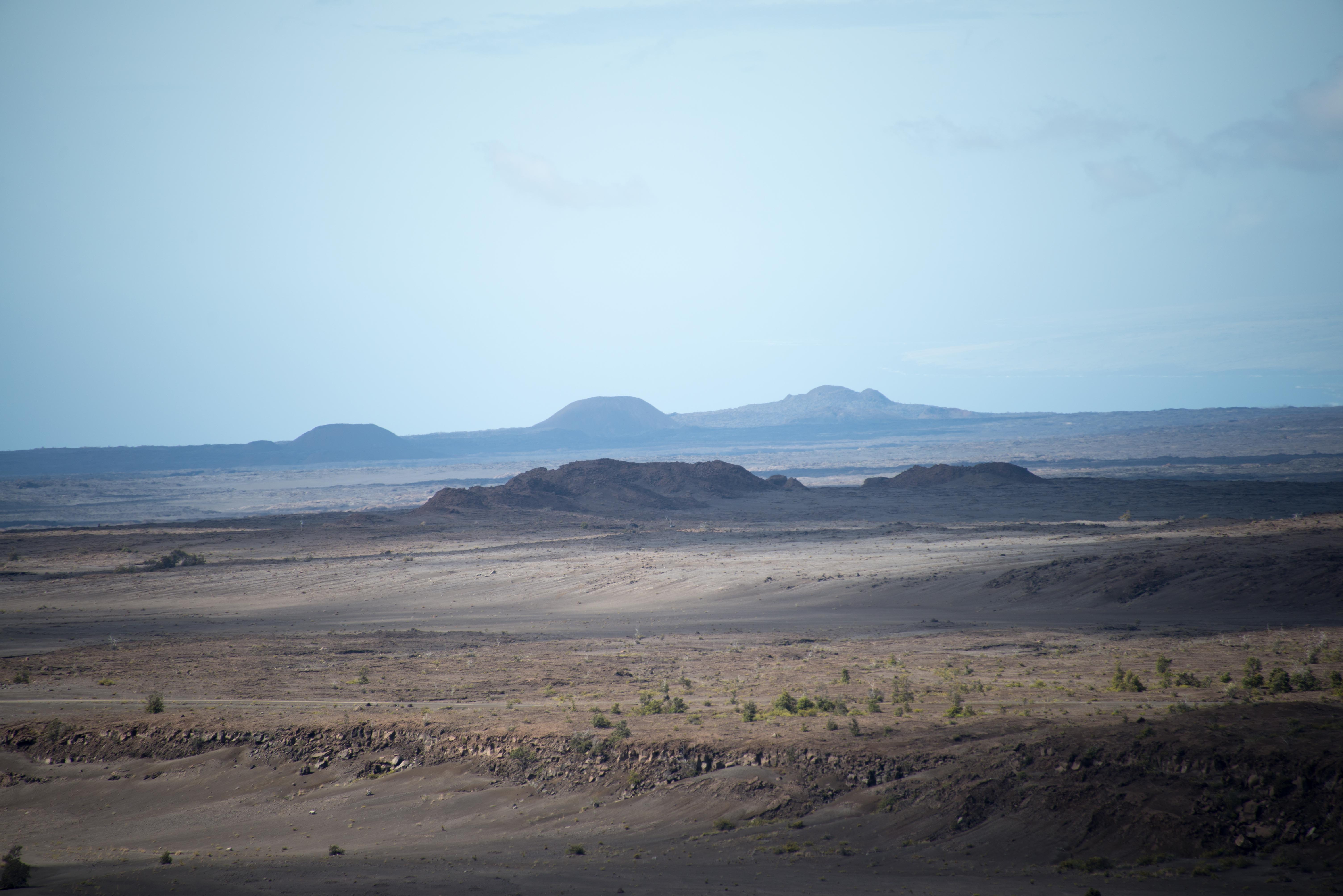 The Ka‘ū Desert Wilderness viewed from Jaggar Museum.